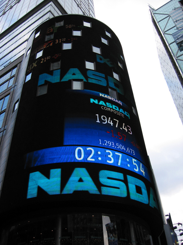 時代廣場四號是美國那斯達克股票交易市場的名義交易中心，建築物上的大型投影幕隨時會打出最即時的指數。 Four Times Square in New York is the physical site of the American stock market NASDAQ.